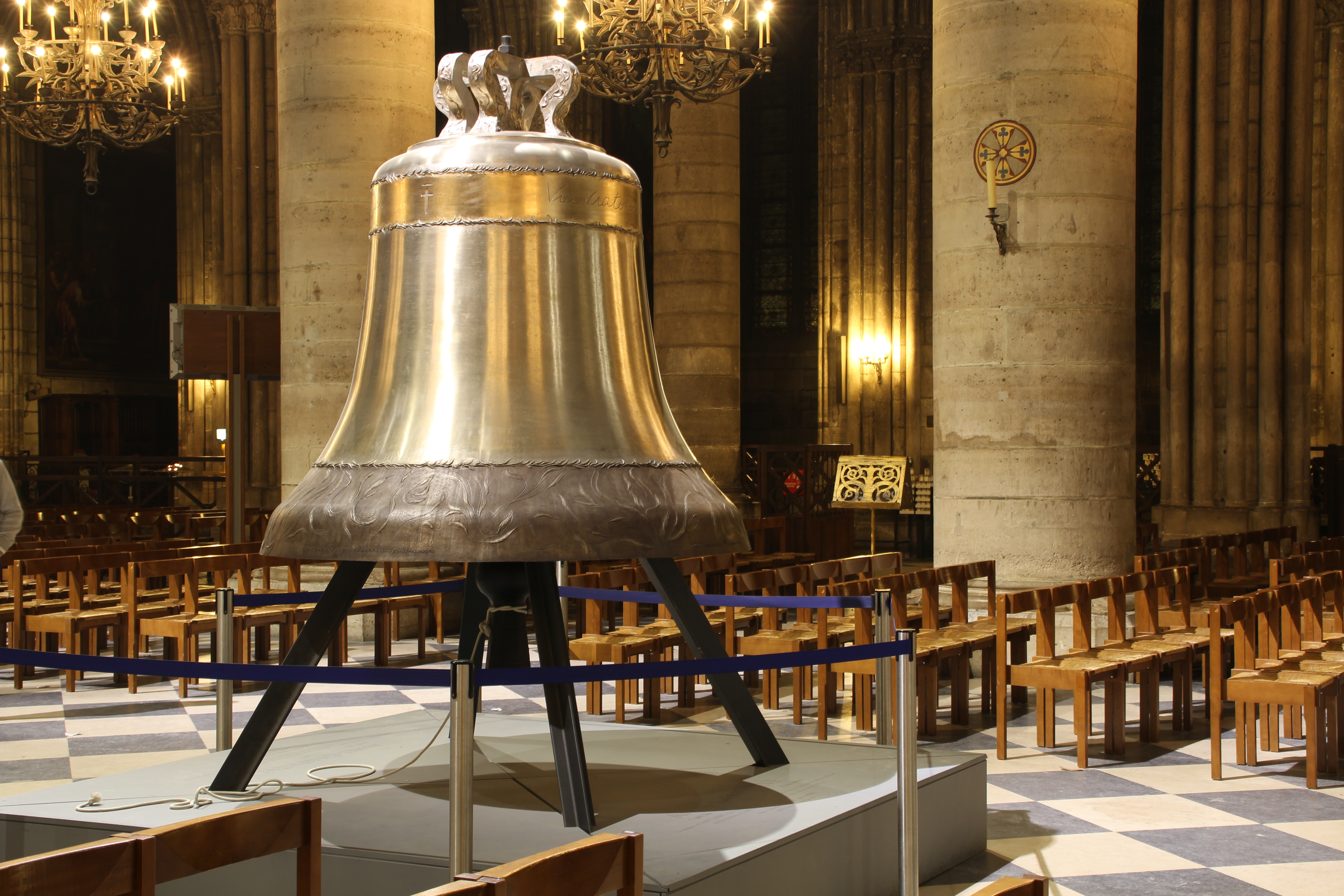 Visit of the cathedral during the exhibition of the new bells in Notre-Dame de Paris, France in 2013.